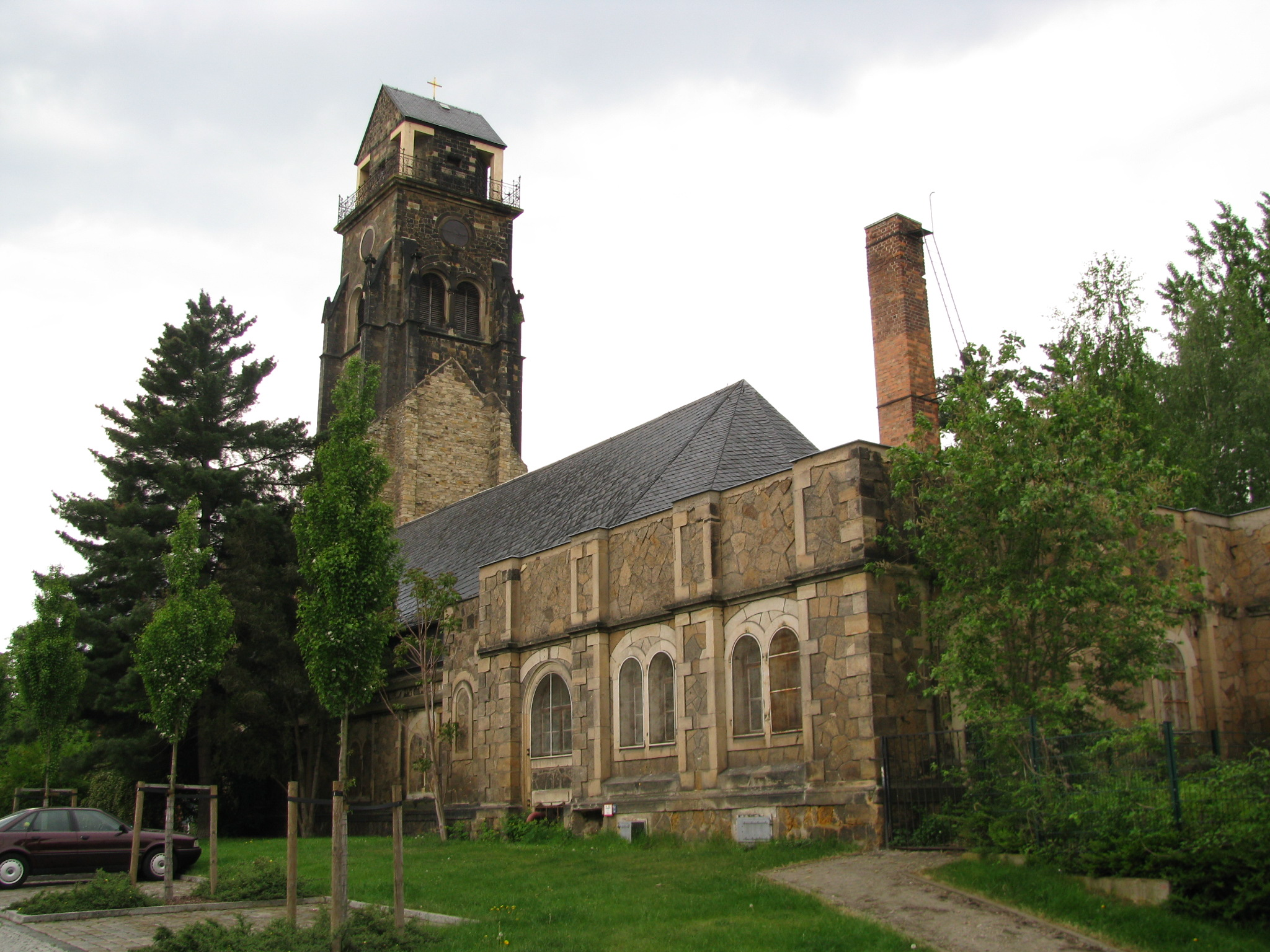 Friedenskirche Dresden-Löbtau: The Church was destroyed in 1945. The auxiliary church of 1949 by Otto Bartning is still in use.